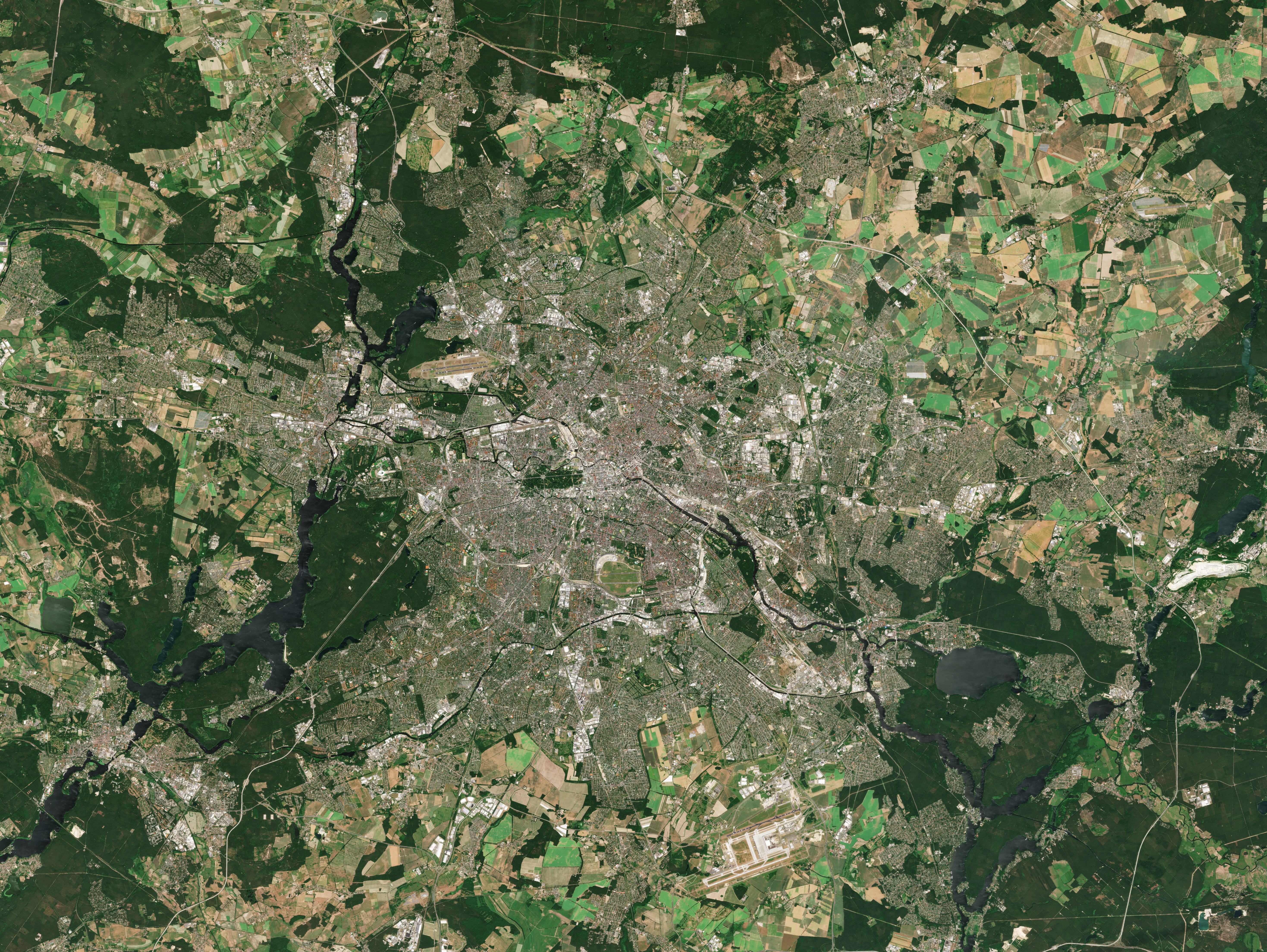 Date: 2018-06-06 Sensor: MSI on Sentinel-2B Resolution: 10m RGB Composites: True color, Band 4-3-2